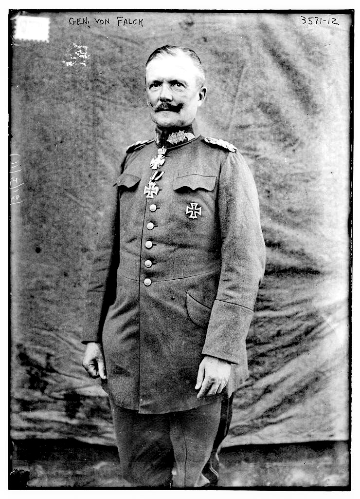 Adalbert von Falk circa 1915